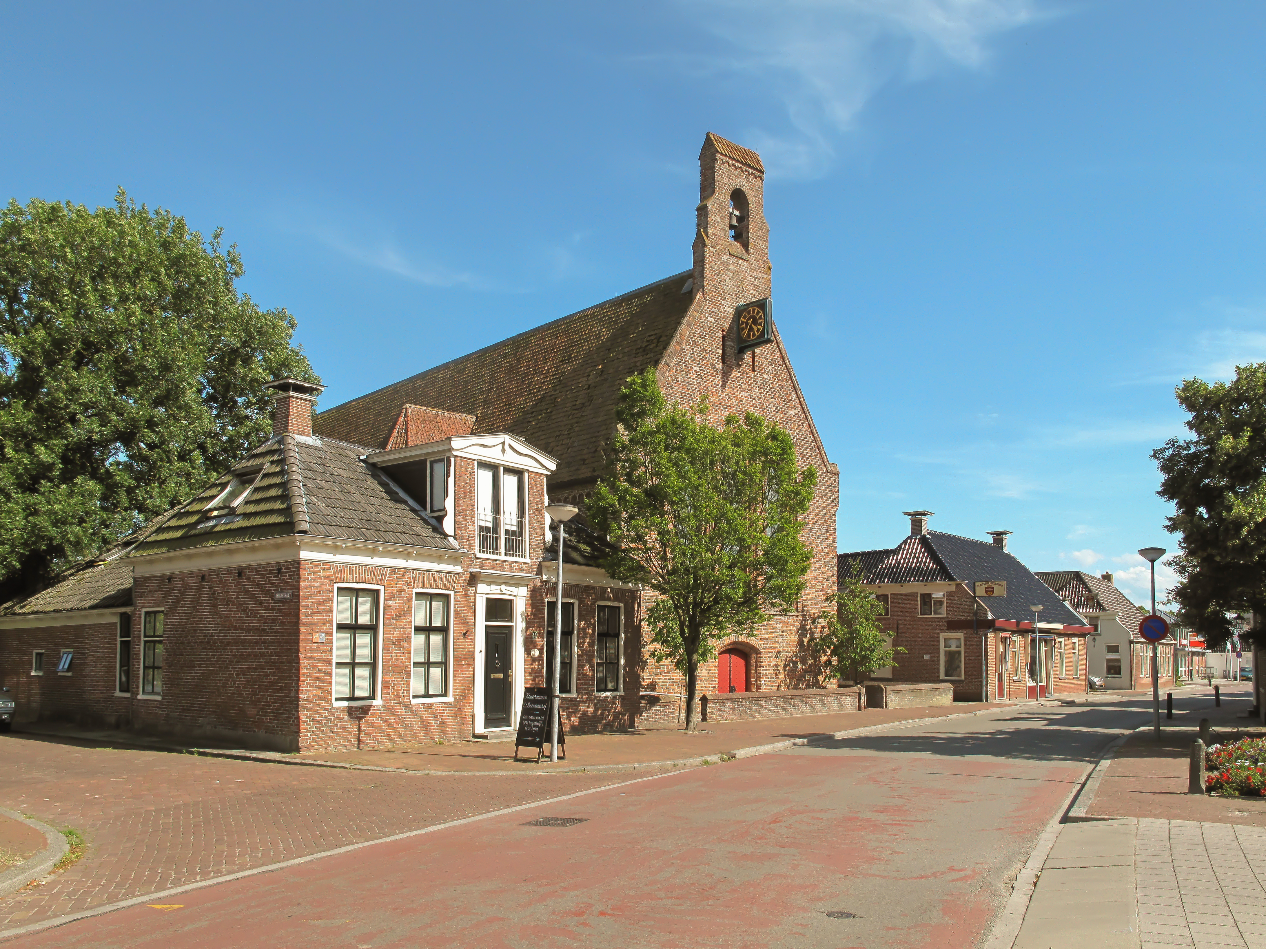 Aduard, reformed church/former monastery